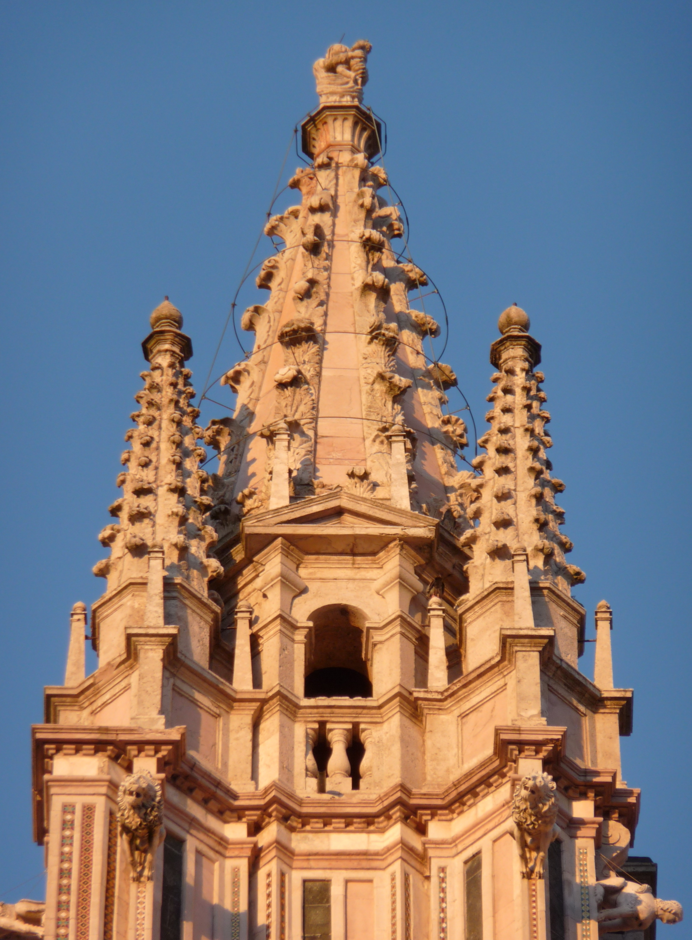 Facade of the Duomo of Orvieto, Italy.